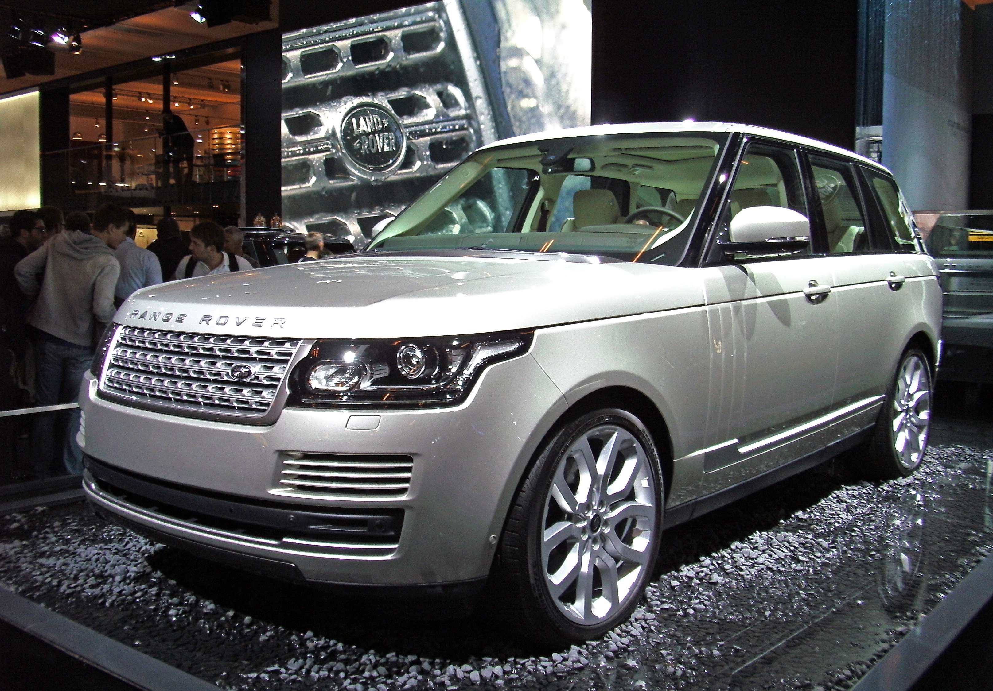 4th generation Range Rover at 2012 Paris Motor Show